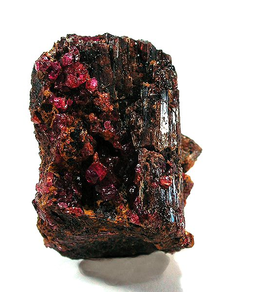 Painite Locality: Ohngaing (Ohn Gaing; Ohn Kai), Mogok, Sagaing District, Mandalay Division, Burma (Myanmar) (Locality at ) Size: 3.7 x 3.1 x 2.3 cm. A large painite crystal with associated small, bright red ruby crystals.